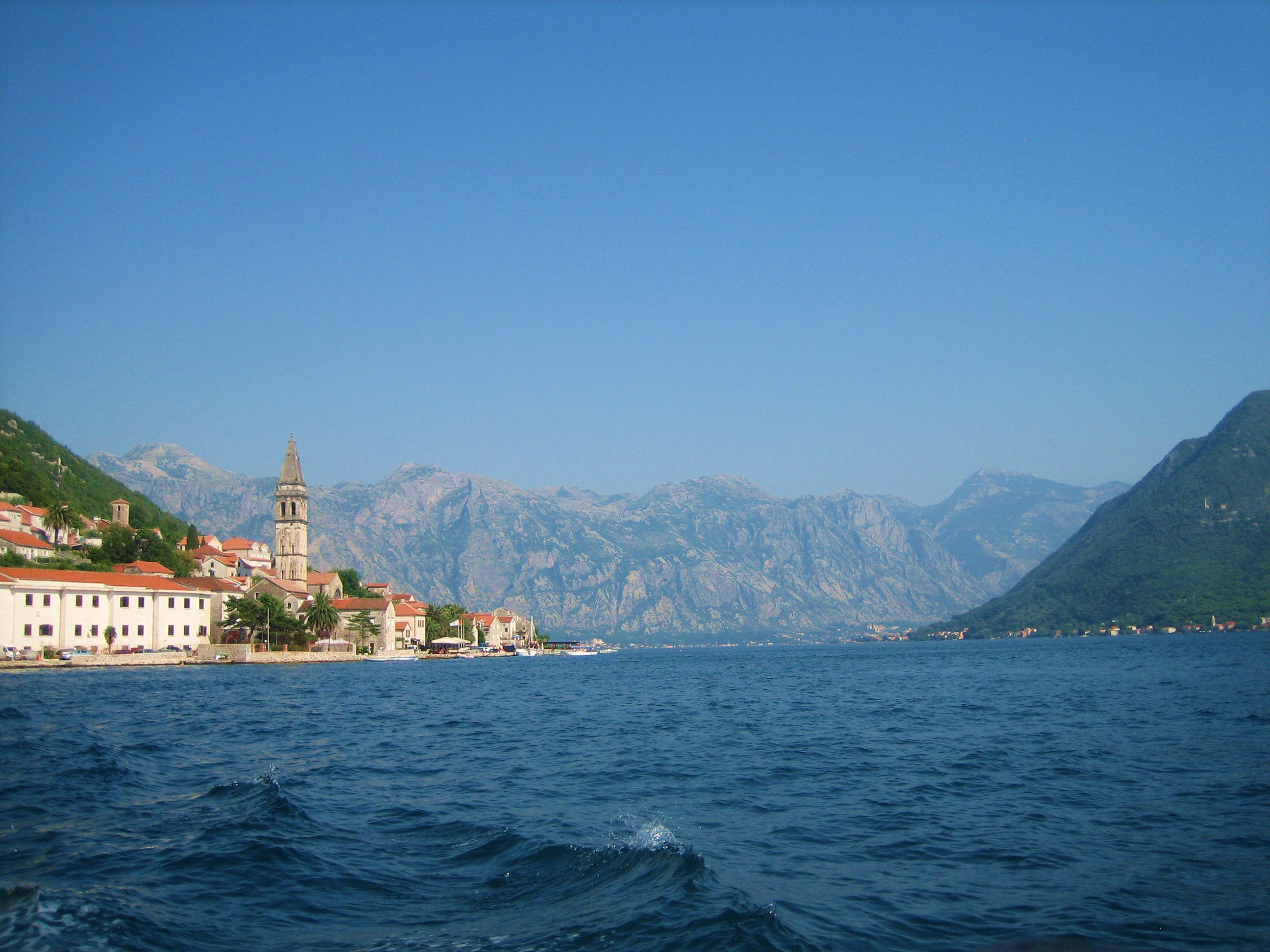 View of Perast, Kotor, Montenegro, from a boat in the Bay of Kotor